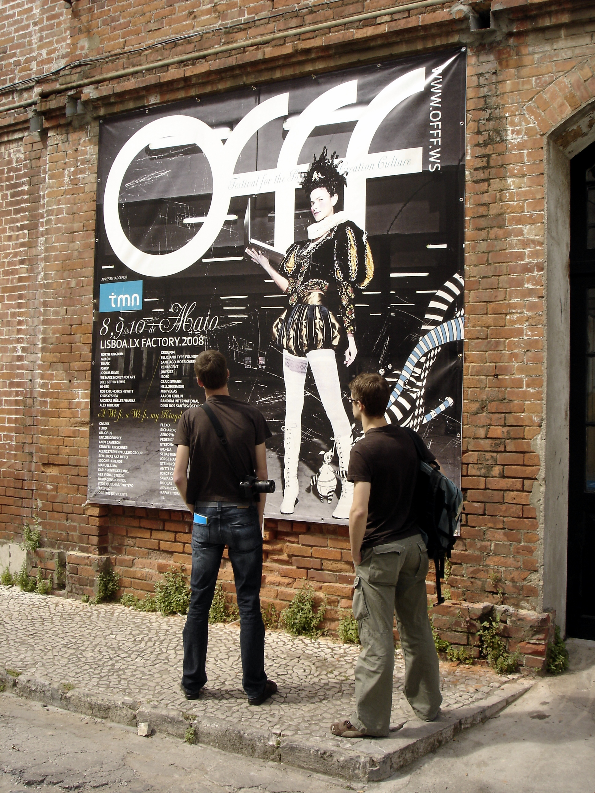 Offf Lisboa LX Factory 2008